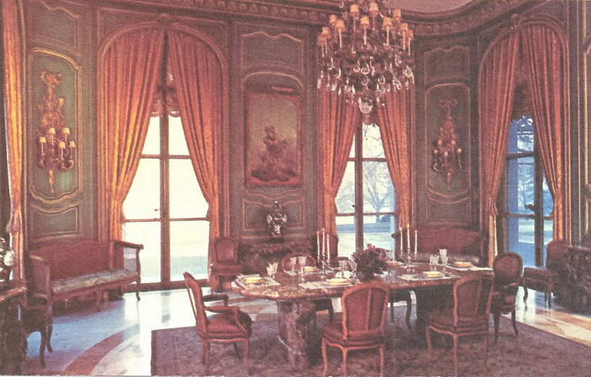 Rose Terrace interior (Dodge Mansion) Grosse Pointe Farms MI c 1971